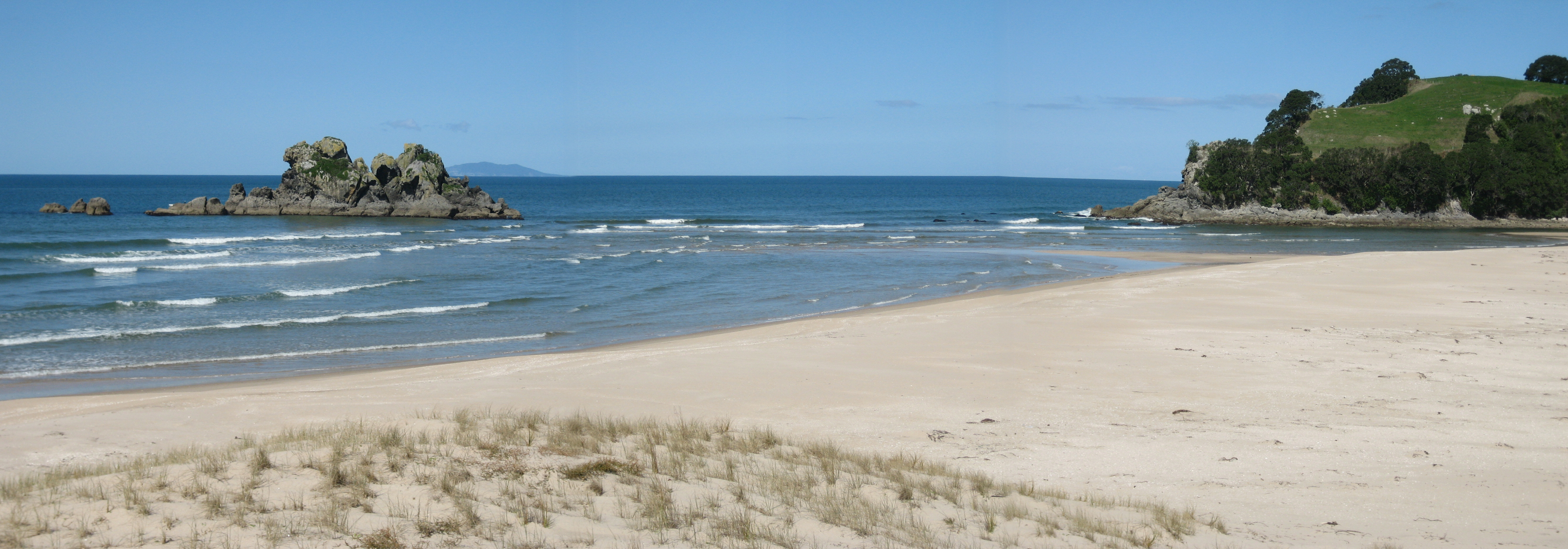 Southern end of Opoutere Beach. Photo stitch.